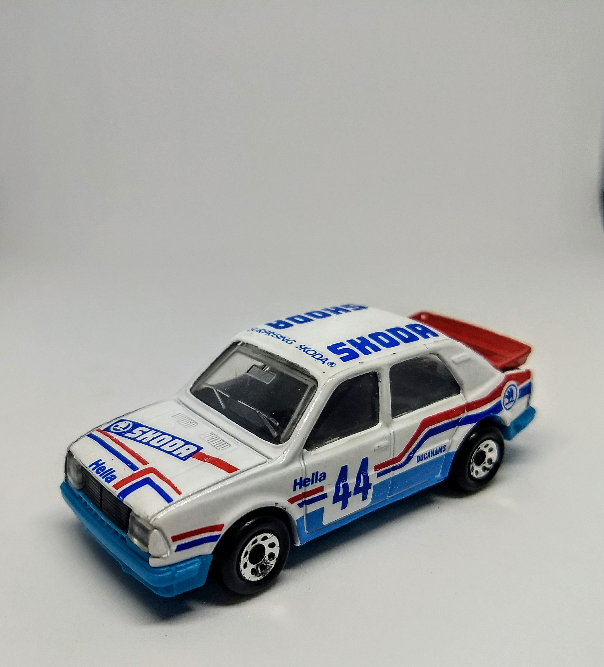 A Skoda by Matchbox